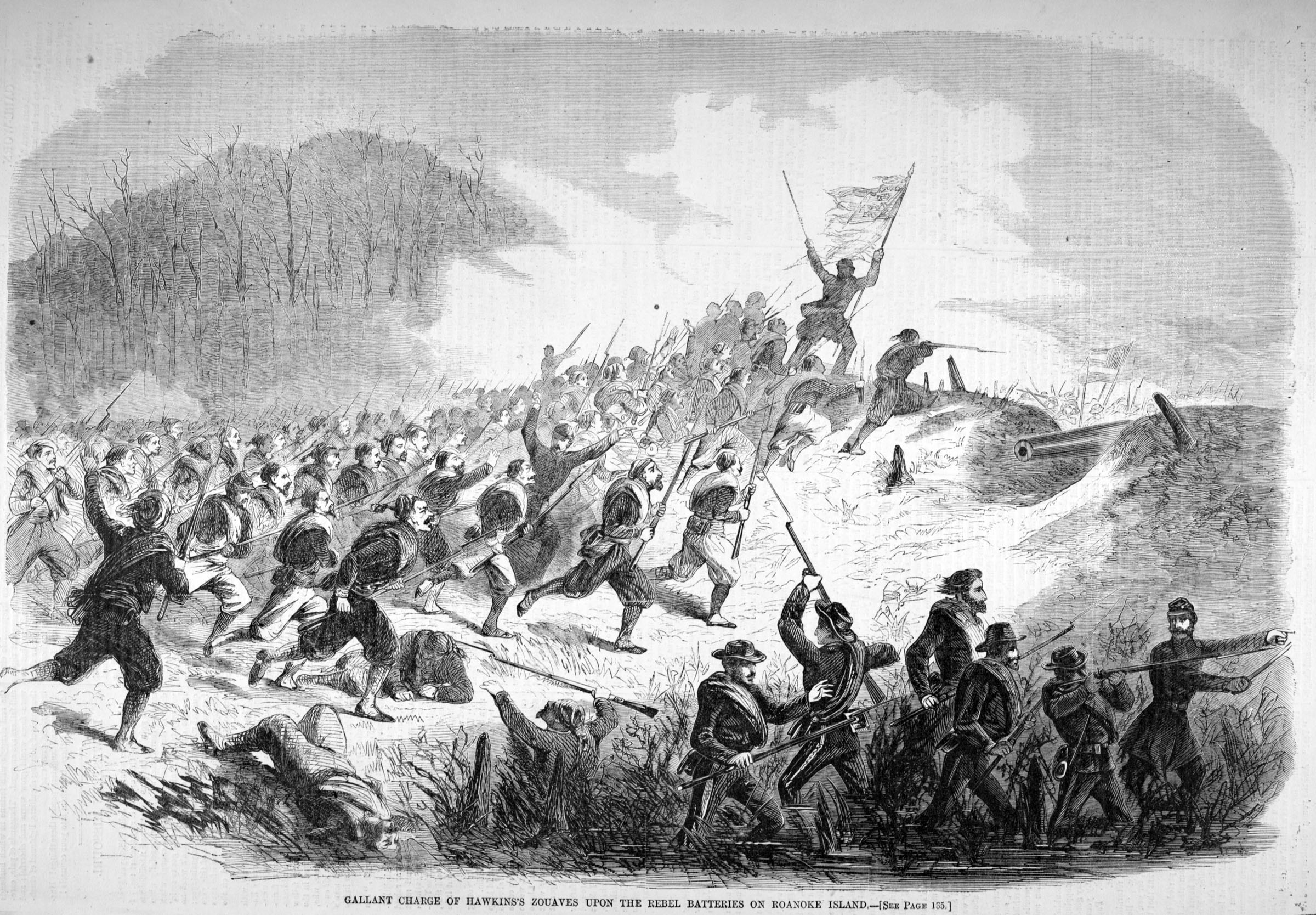 Original Prints